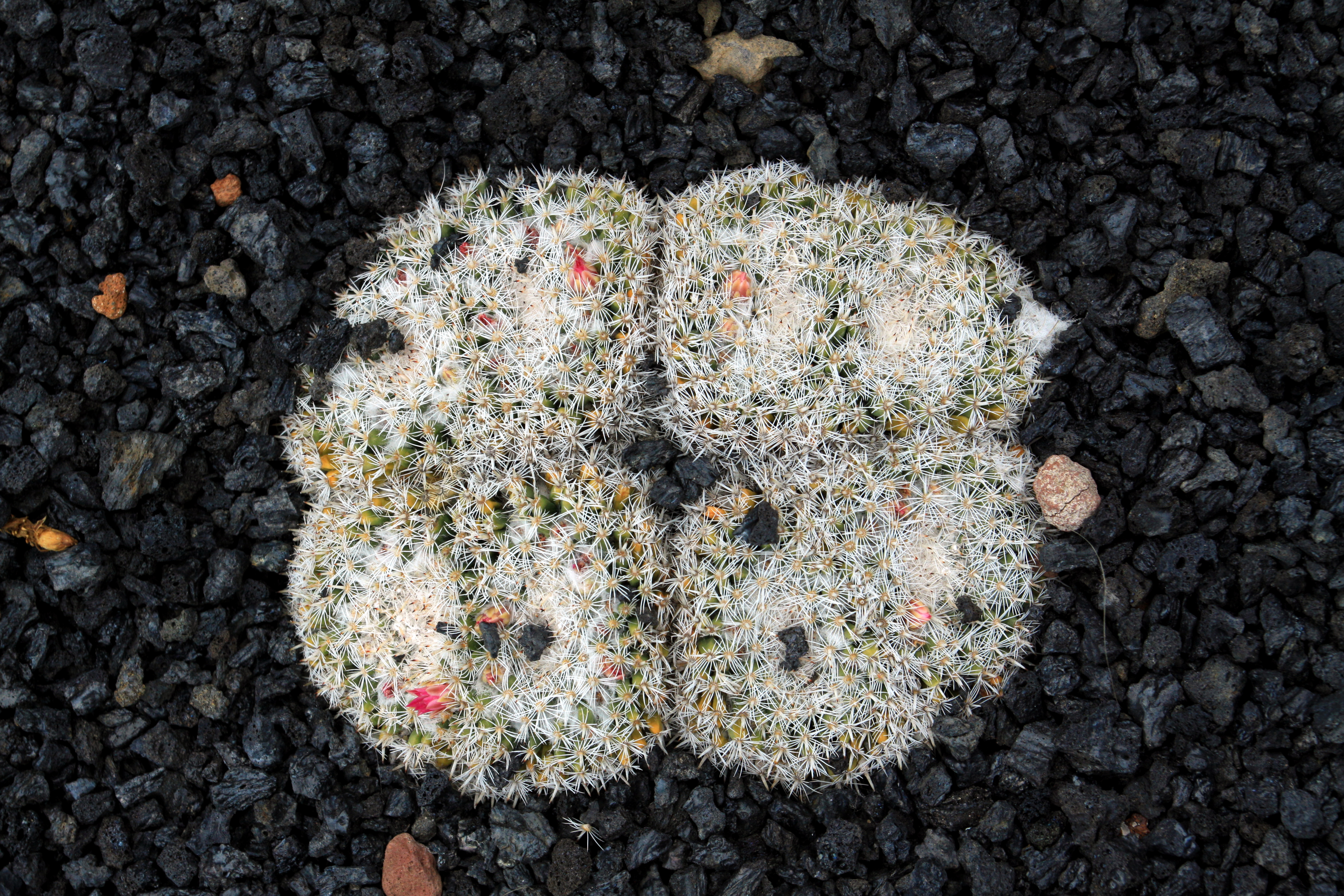 Mammillaria perbella in the Jardin de Cactus in Guatiza on Lanzarote, The Canary Islands, Spain